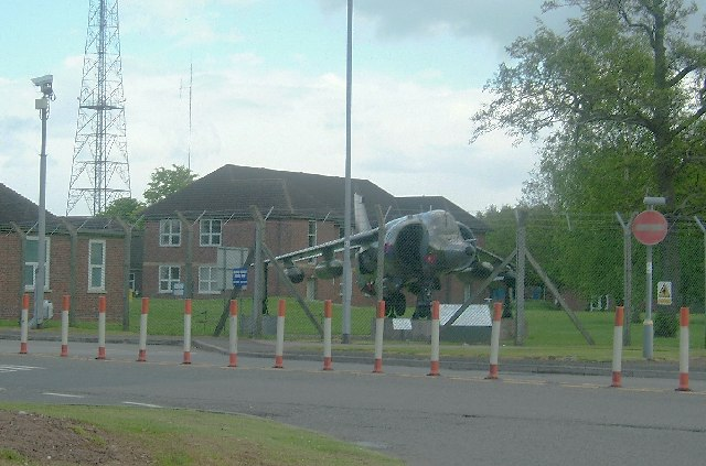 Gate Guardian. An Harrier GR.3 aircraft beside the gate of RAF Stafford, Staffordshire, England.